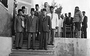 The All-Palestine Government (Arabic: حكومة عموم فلسطين Hukumat 'umum Filastin).